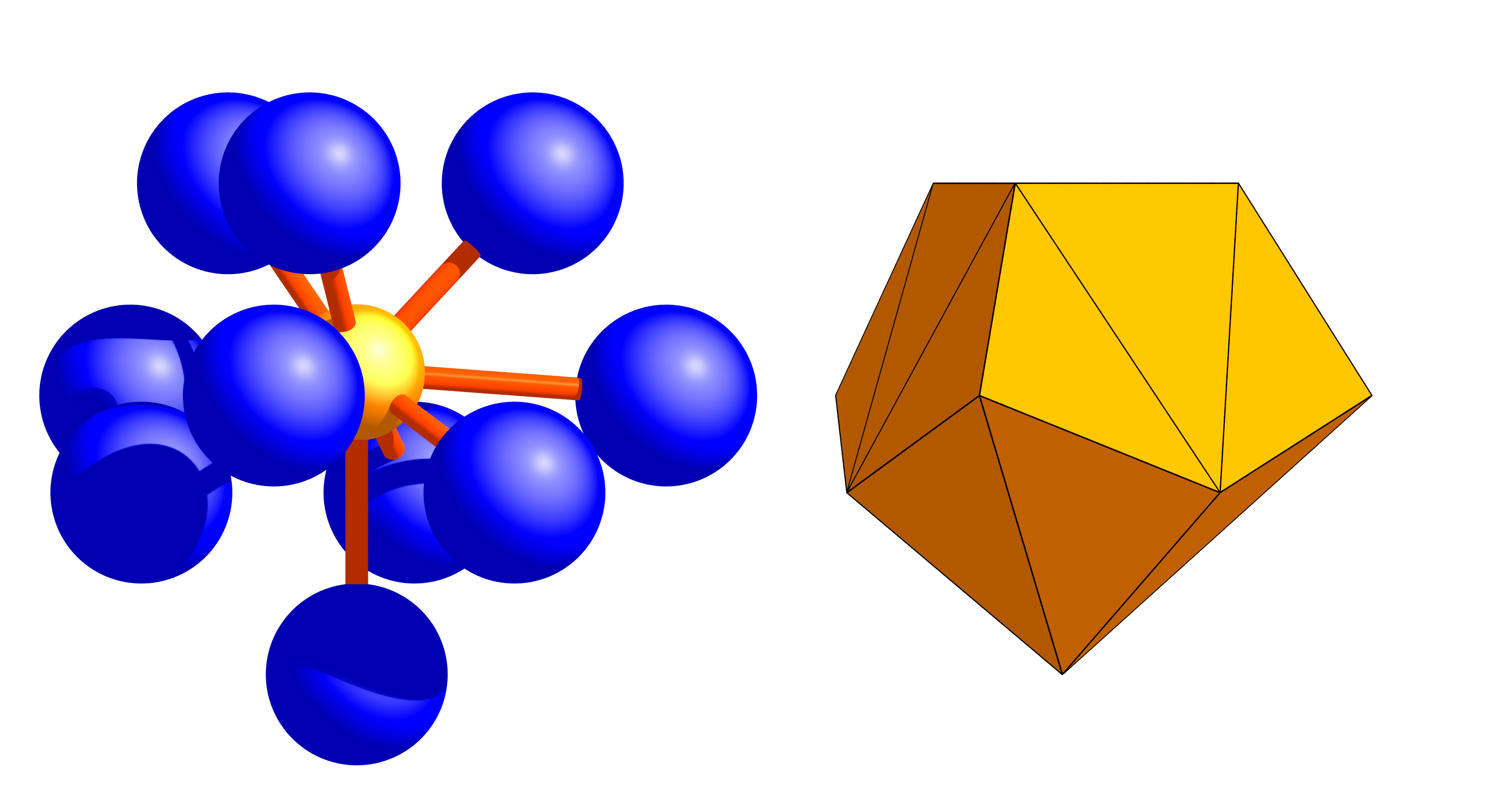 Structure of Dravite: X-site (Na) Data from: Hamburger G. E., Buerger M. J. (1948): The structure of tourmaline, American Mineralogist 33, pp. 532-540 Calculation of image data: Larry W. Finger, Martin Kroeker, and Brian H. Toby, DRAWxtl, an open-source computer program to produce crystal-structure drawings, J. Applied Crystallography V40, pp. 188-192, 2007 Rendering: POVRAY